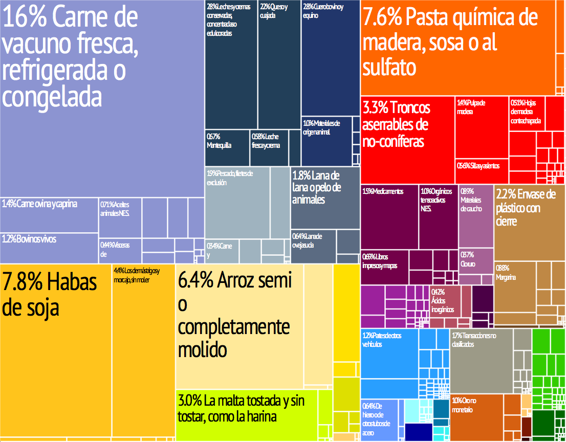 Representación gráfica de los productos de exportación del país en 28 categorías codificadas por color. Cada recuadro de color representa un producto y su tamaño es proporcional a la participación que ese producto representa dentro del total de las exportaciones del país.